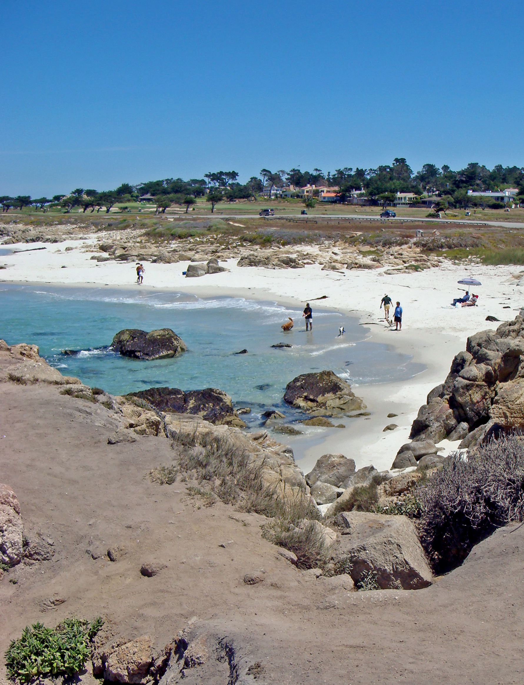 17 Mile Drive cropped version of another image previously uploaded by the author.